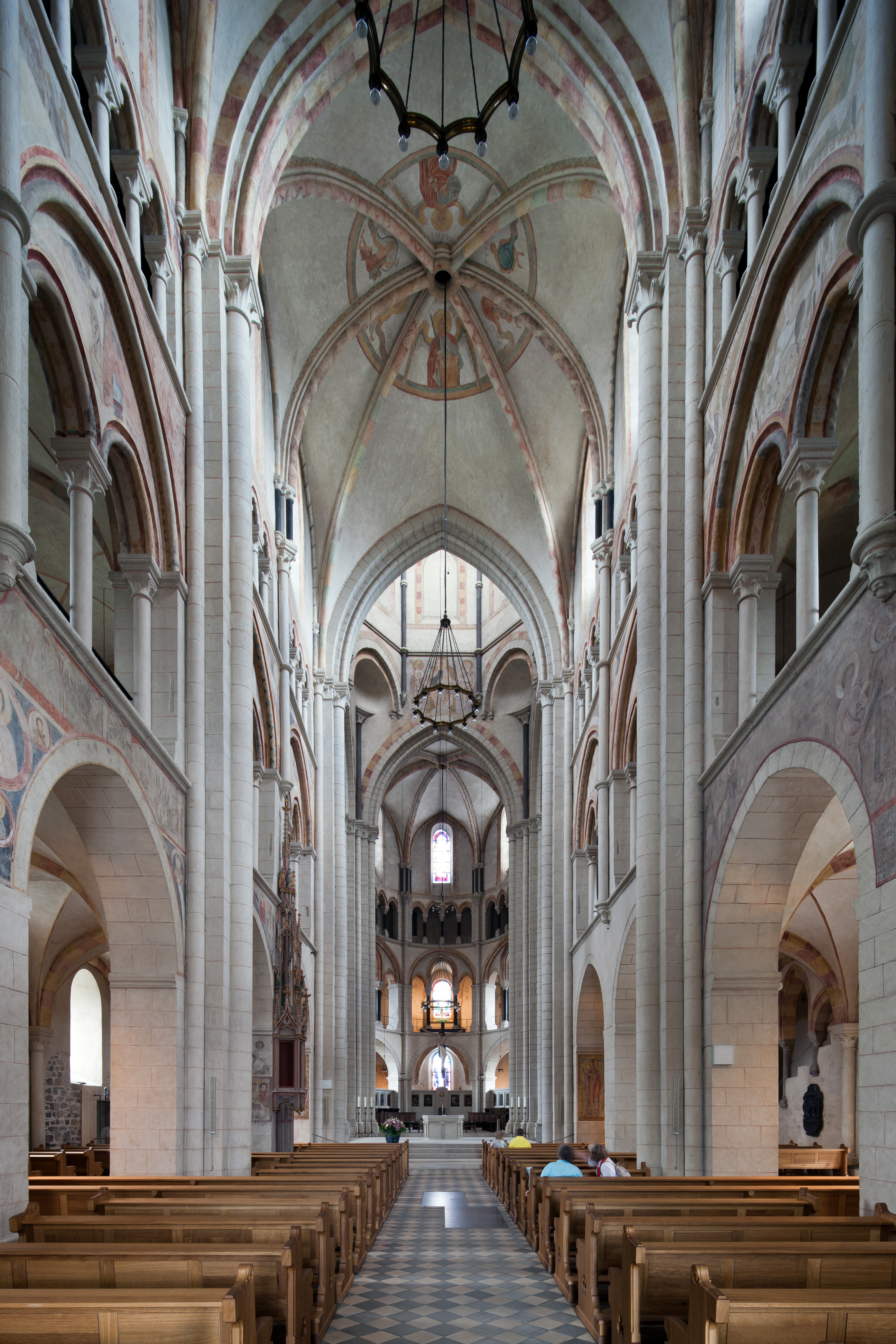 Limburg an der Lahn: Dom (Cathedral), interior as seen from the west